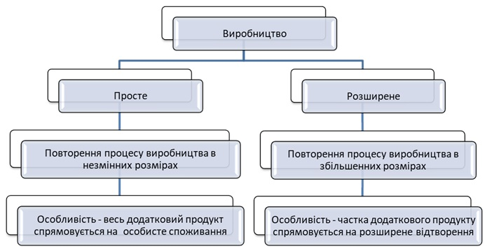 Види відтворення